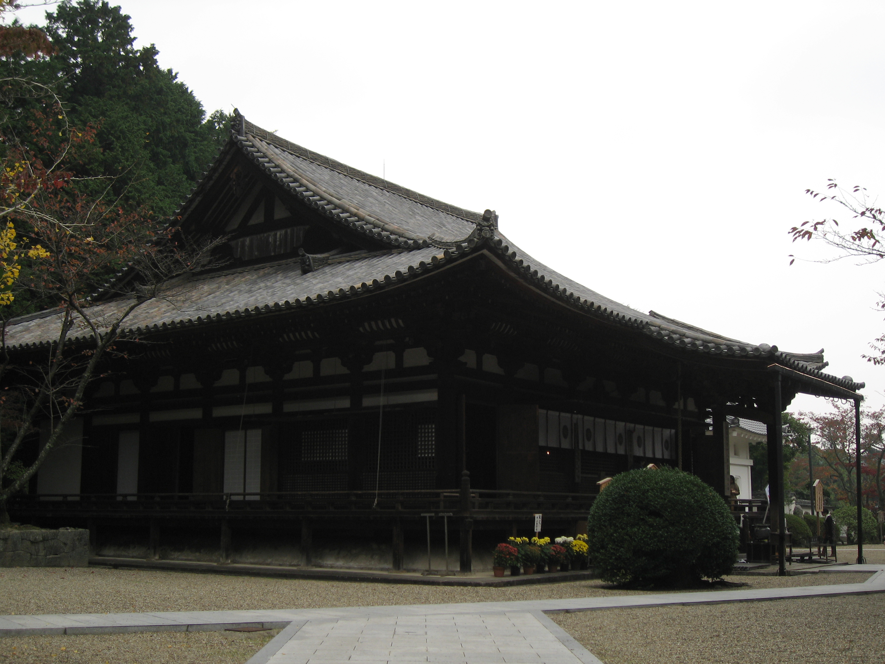 Hondō of Ryōsen-ji, built in Kamakura period, National Treasures of Japan Nakamachi Nara-City Nara Pref., Japan.